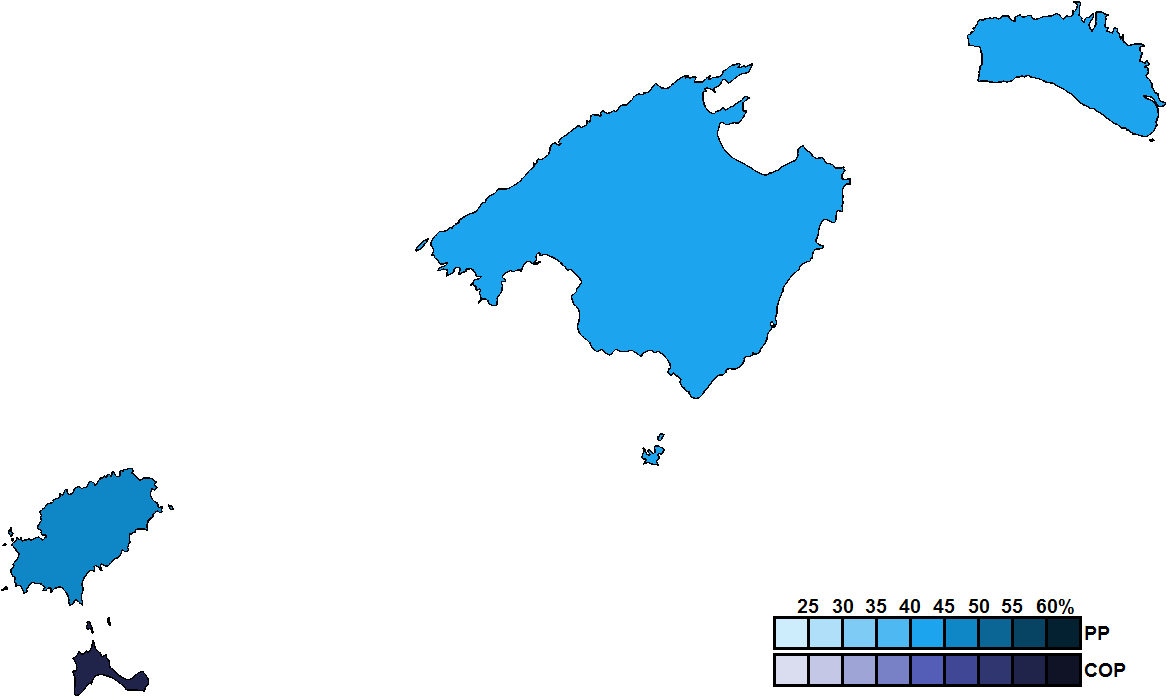 District results for the 1999 Balearic regional election.